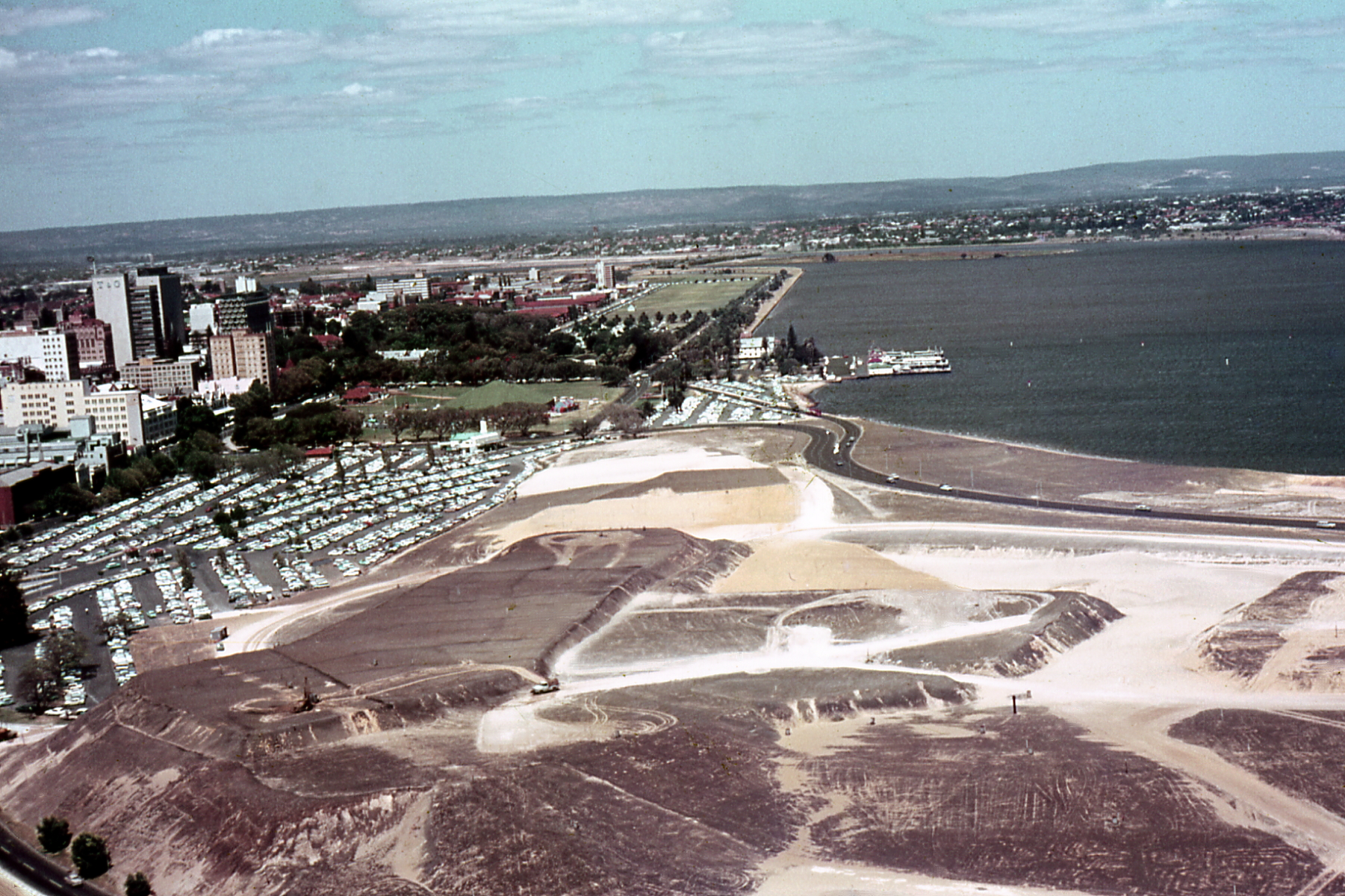 Narrows Interchange under construction at the Southern end of the Mitchell Freeway, probably in late 1968